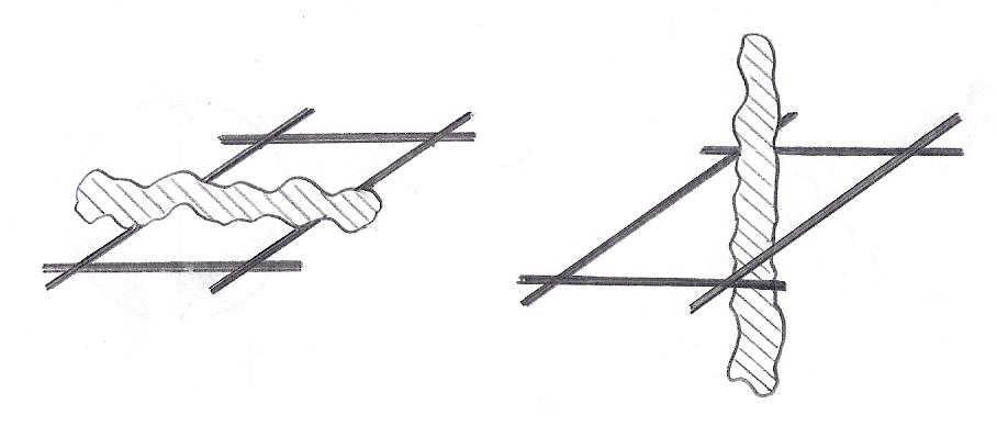 dsequivalent